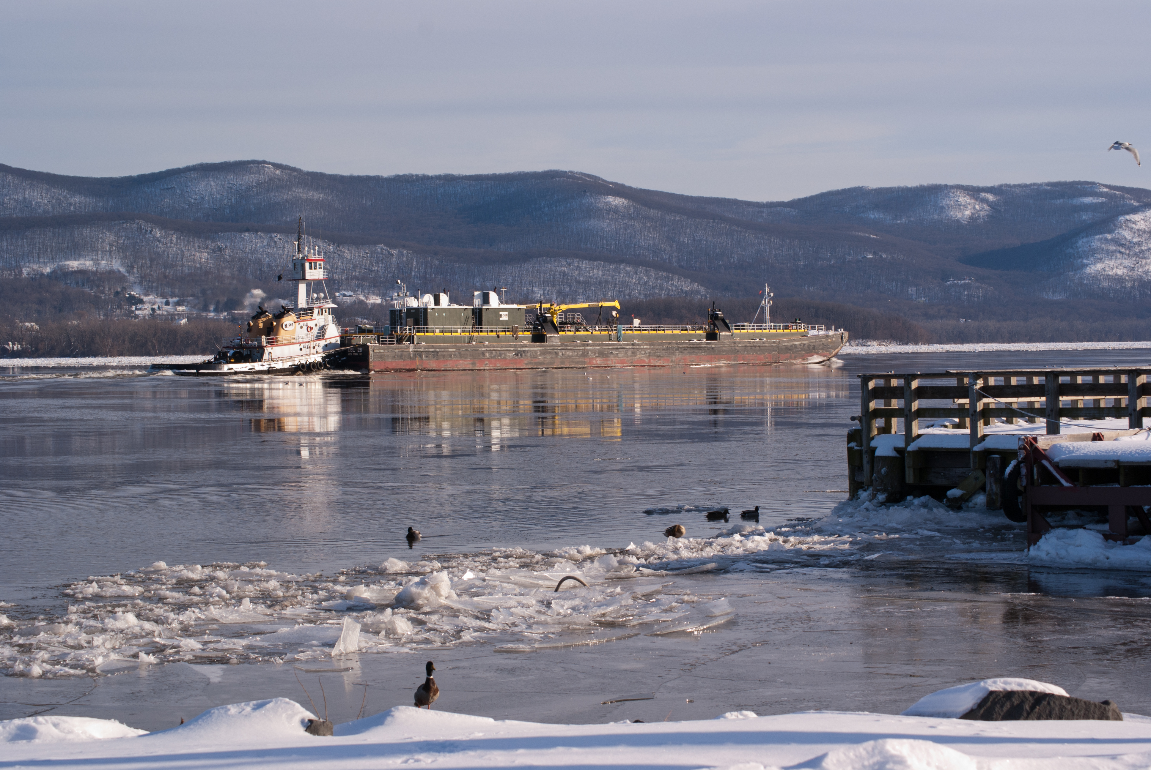 Frozen Newburg Bay on the Hudson River